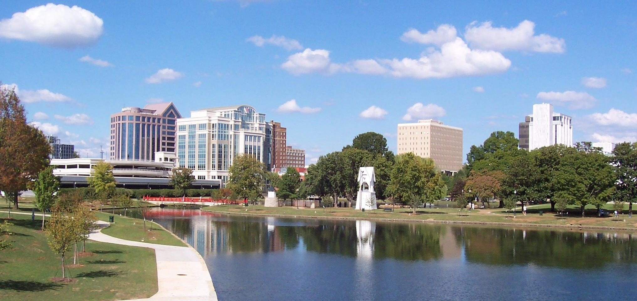 View of downtown Huntsville, Alabama from Big Spring International Park.